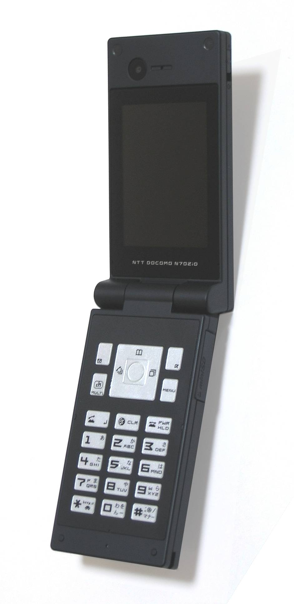 NTT DoCoMo FOMA N702iD is a mobile phone that was designed by Sato Kashiwa and NEC.